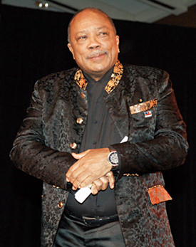 Bandleader Quincy Jones in 2008